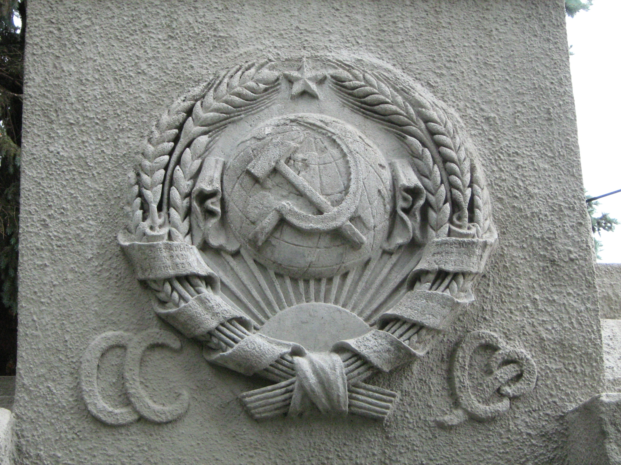 Lenin monument n Komintern St in central Sormovo. Decorated with an early version of the Coat of Arms of the USSR (with just 7 ribbons), the monument was built in the early years of the USSR